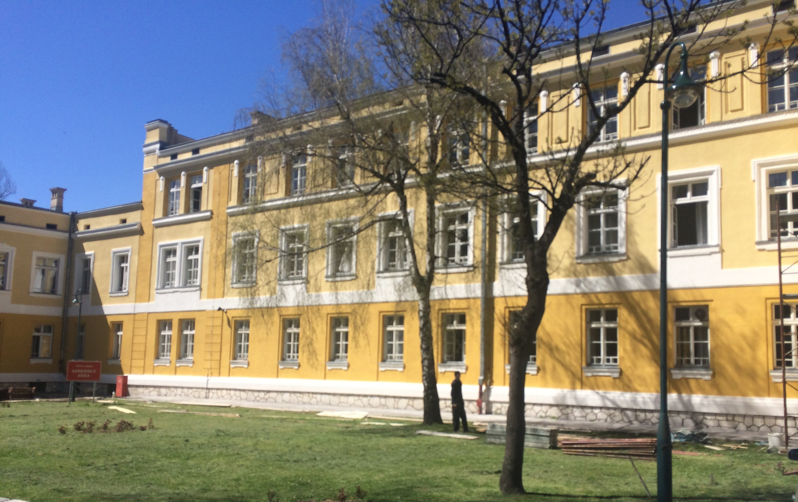 Image of the Ministry of Defence, Sarajevo, Bosnia & Hercegovina. The building was erected by the Austrians.